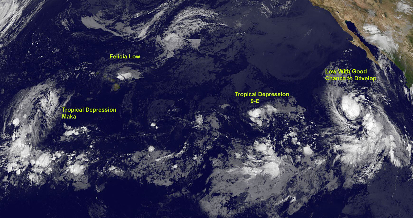 The GOES-11 satellite is getting a lot of business today, August 12. There are four areas of tropical interest between the Central and the Eastern Pacific Ocean today: two near Hawaii and two from a couple hundred to a thousand miles off the Mexican coast, and GOES-11 captured them all in one image.